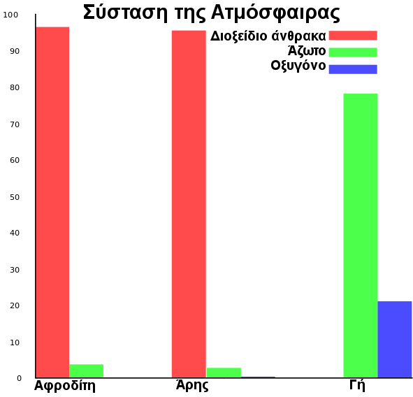 Tranlation of File:Venus-Mars-Earth-Atmosphere.svg into Greek